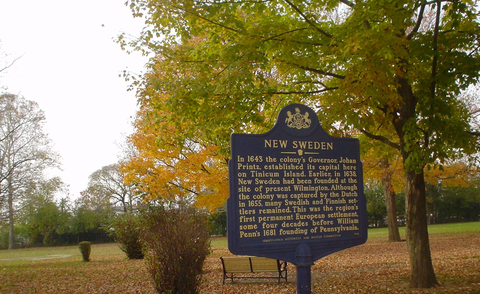 PA Historical Marker in Governor Printz Park. This place was once considered to be the site of Gov. Printz's House - "Capital of New Sweden" Sign is more correct - the site is probably nearby. The sign is from 9 April 1988.[1]